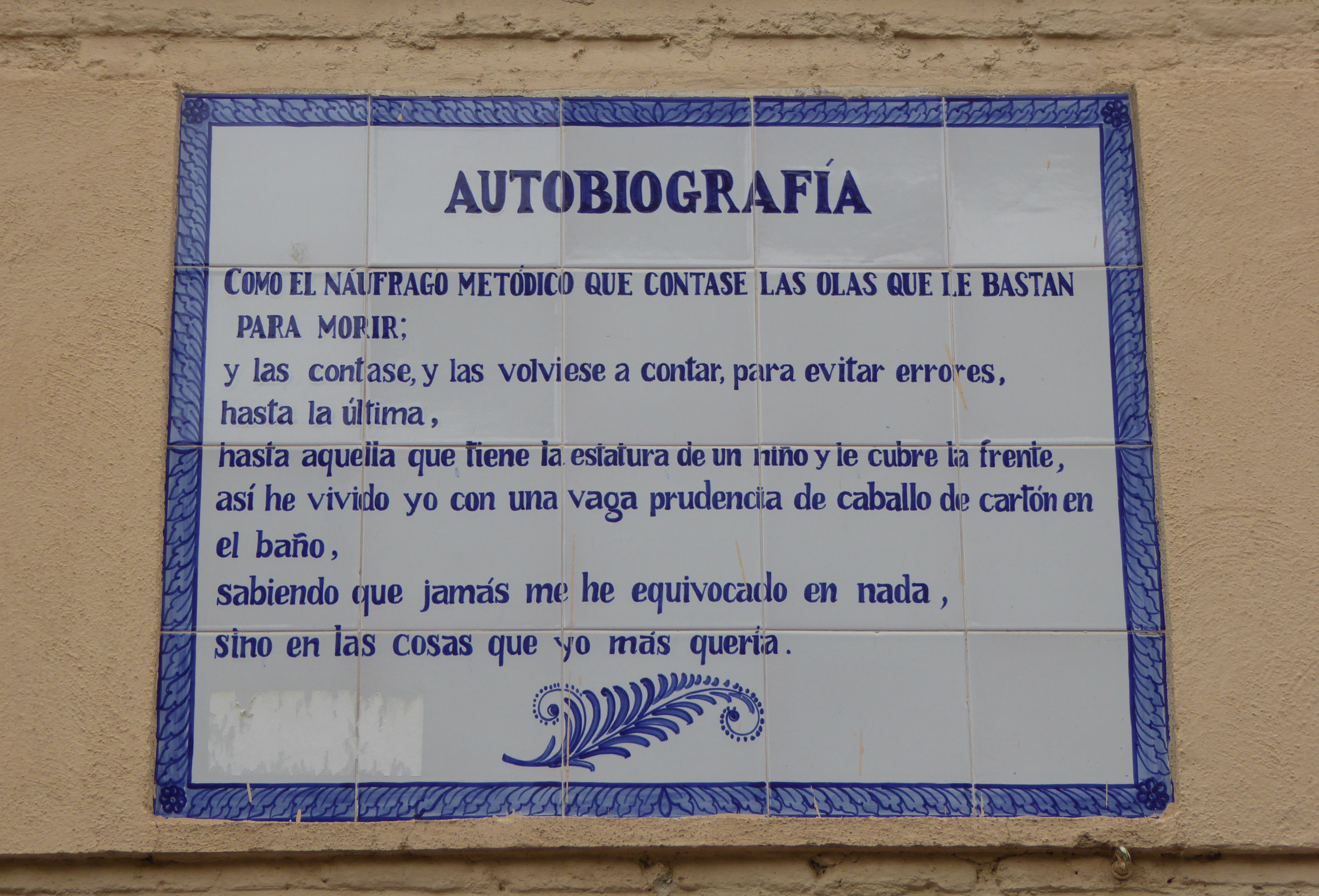 Verse by the poet Luis Rosales, in Grandada